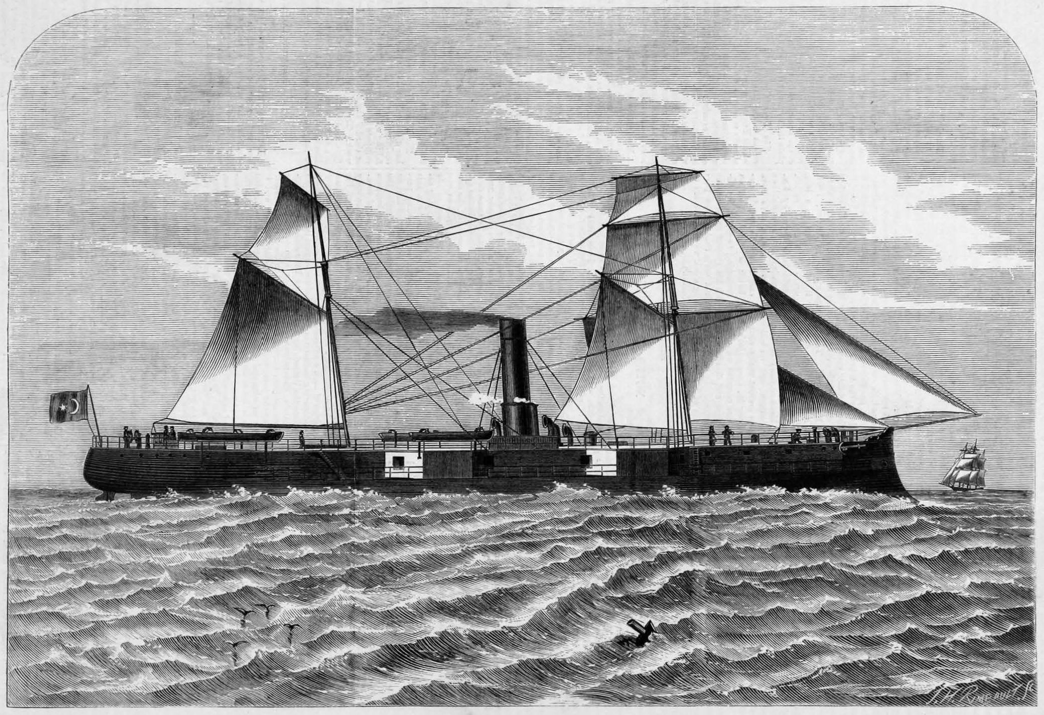 The Turkish ironclad Avnillâh was built by the Thames Iron and Shipbuilding Company, and it was featured in the May 20, 1870 edition of the periodical Engineering on page 358 (referred to as the Avni Illah), accompanied by some illustrations, including this one on page 353.